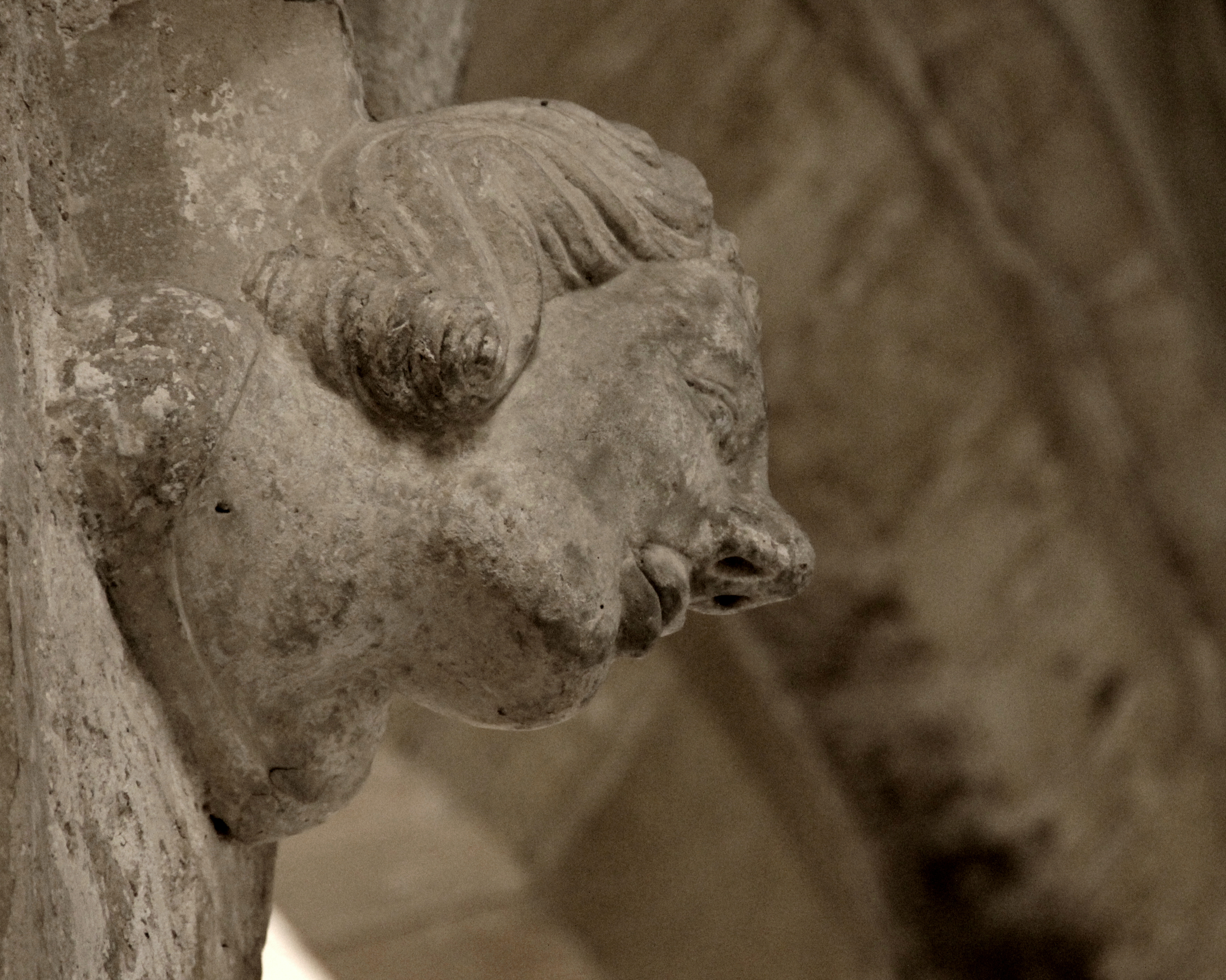 St Peter's Church, Barton-upon-Humber, Lincolnshire. Showing label stop head on gallery in nave. This is Catherine Mawer's faux Romanesque portrait of her apprentice Matthew Taylor, featuring his big nose. Note that all of these heads have some some indication of movement, even if it is only in the direction of the eyes.